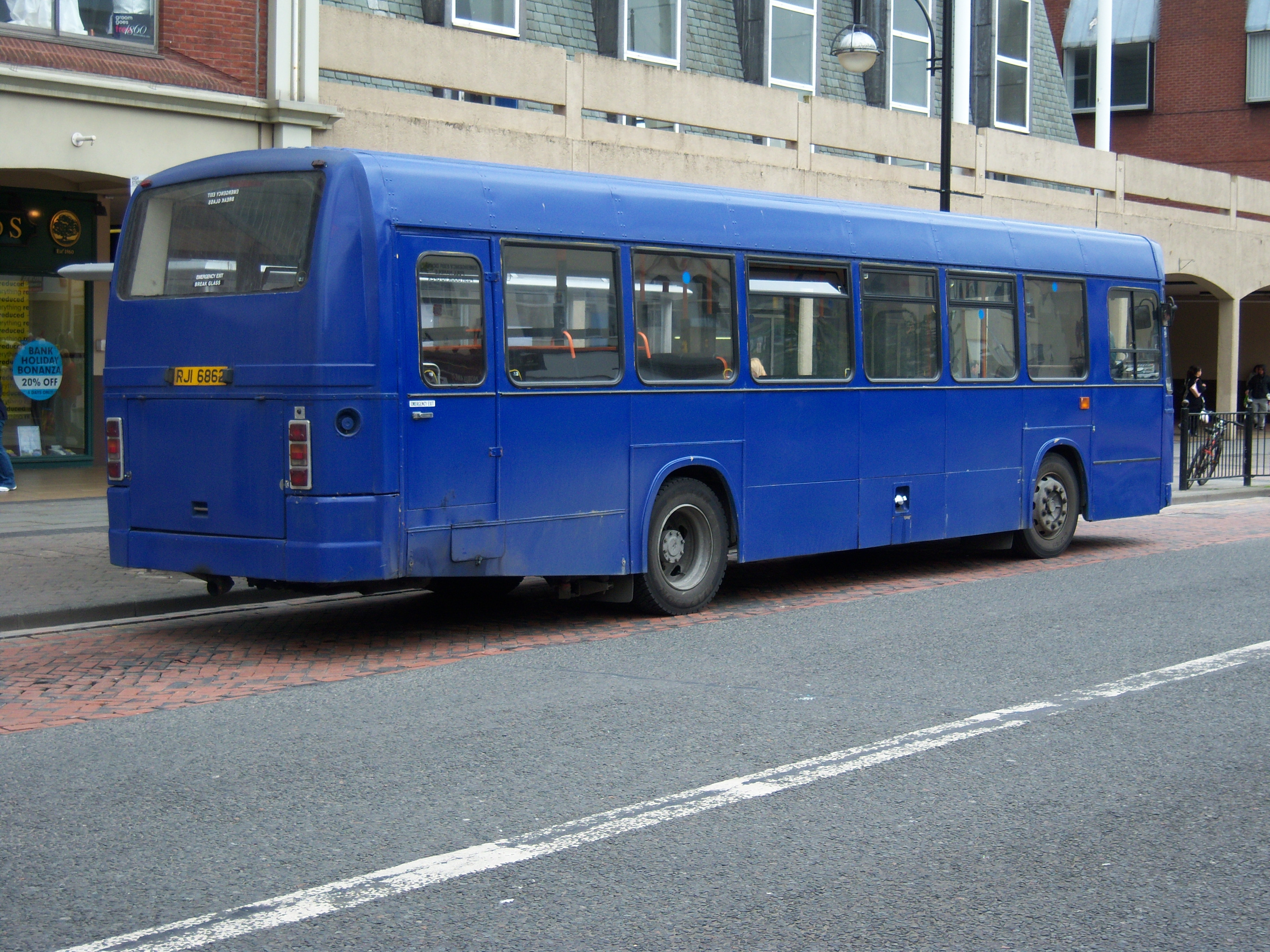 A1 Coaches RJI 6862 (previously MCA 677T), a Leyland National/East Lancs Greenway, in Stockton-on-Tees, on route 66.